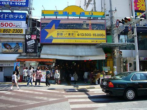 Gate of Naha's Ichiba Dori (市場本通り街, Ichiba Dorigai). Was used in Characters of the Yakuza series.